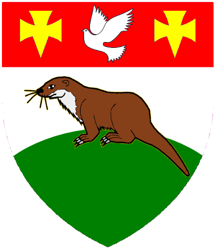 Shield of arms of The Lord Coleridge